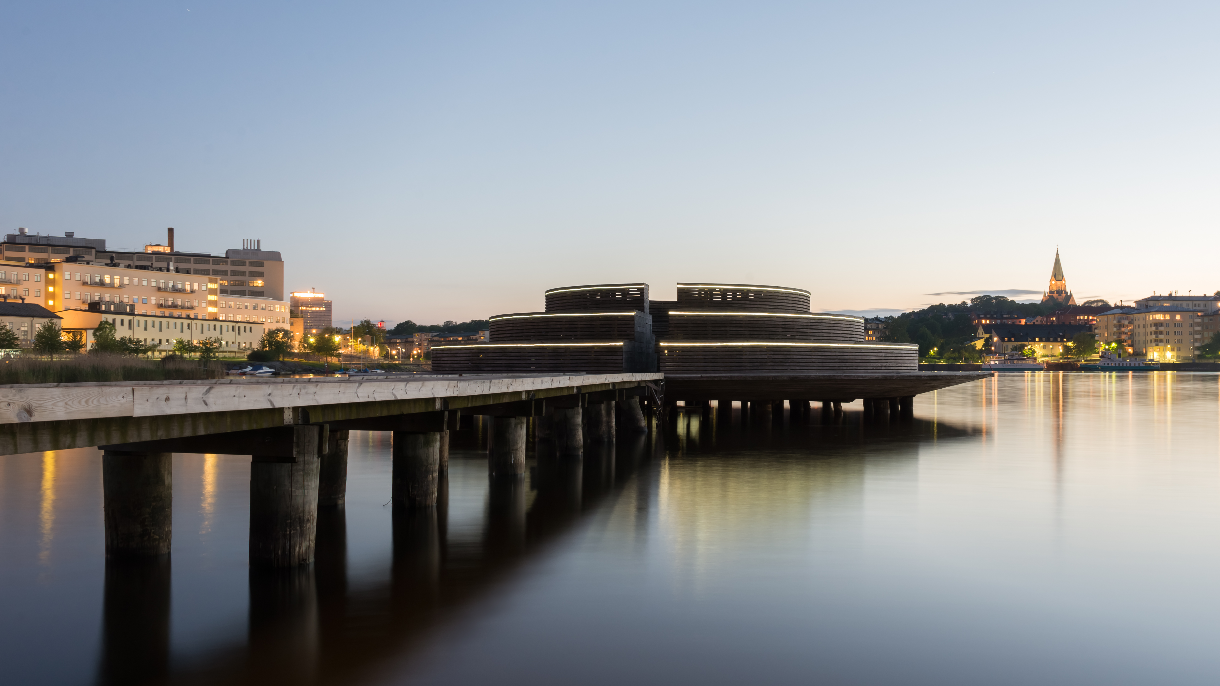 Observatorium (Observatory), Södra Hammarbyhamnen, Stockholm. Observatorium was created by artist Gunilla Bandolin 2002. Material: Canadian oak, fiber optics. In the background Södermalm and Sofia kyrka